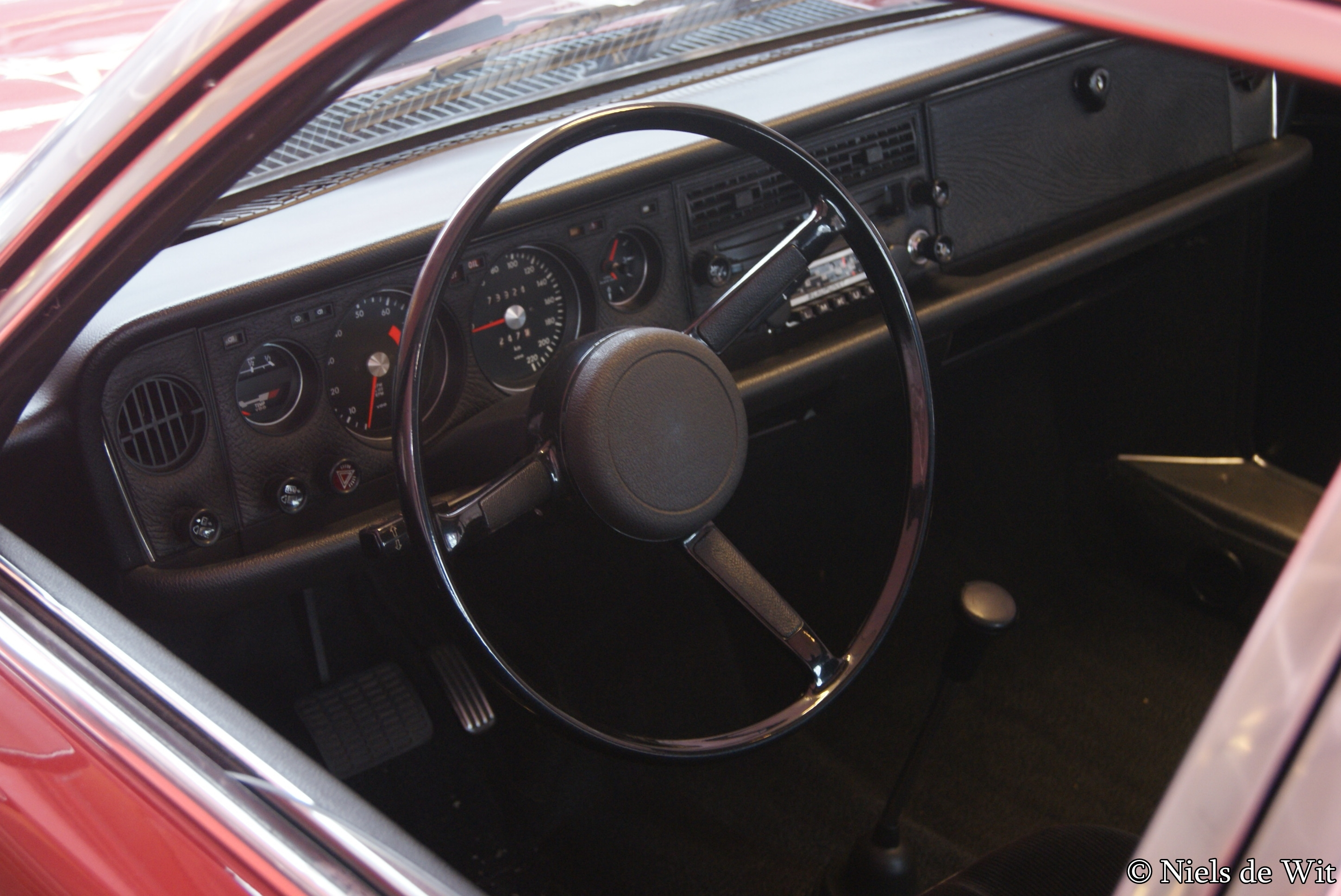 NT-66-VK Classic Park Boxtel